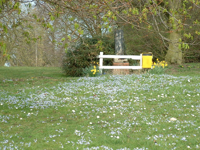 The village pump, Hornby, Hambledon, N. Yorks